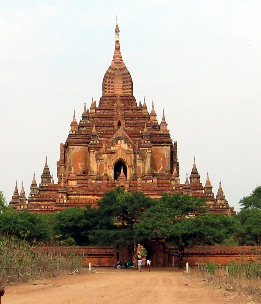 Sulamani Temple, Bagan, Myanmar-Burma